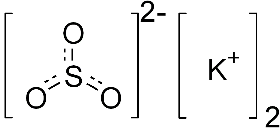 chemical structure of potassium sulfite (sulphite)